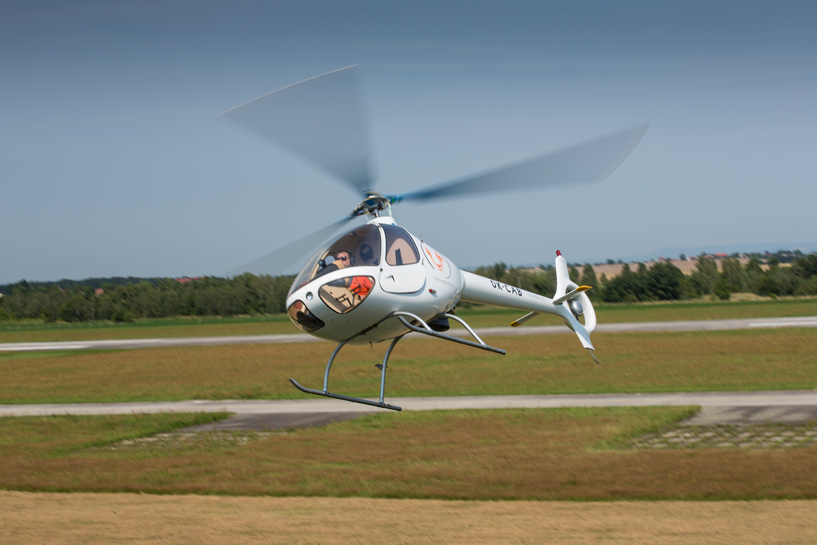 Guimbal Cabri G2 OK-CAB, Owner LION Helicopters s.r.o.